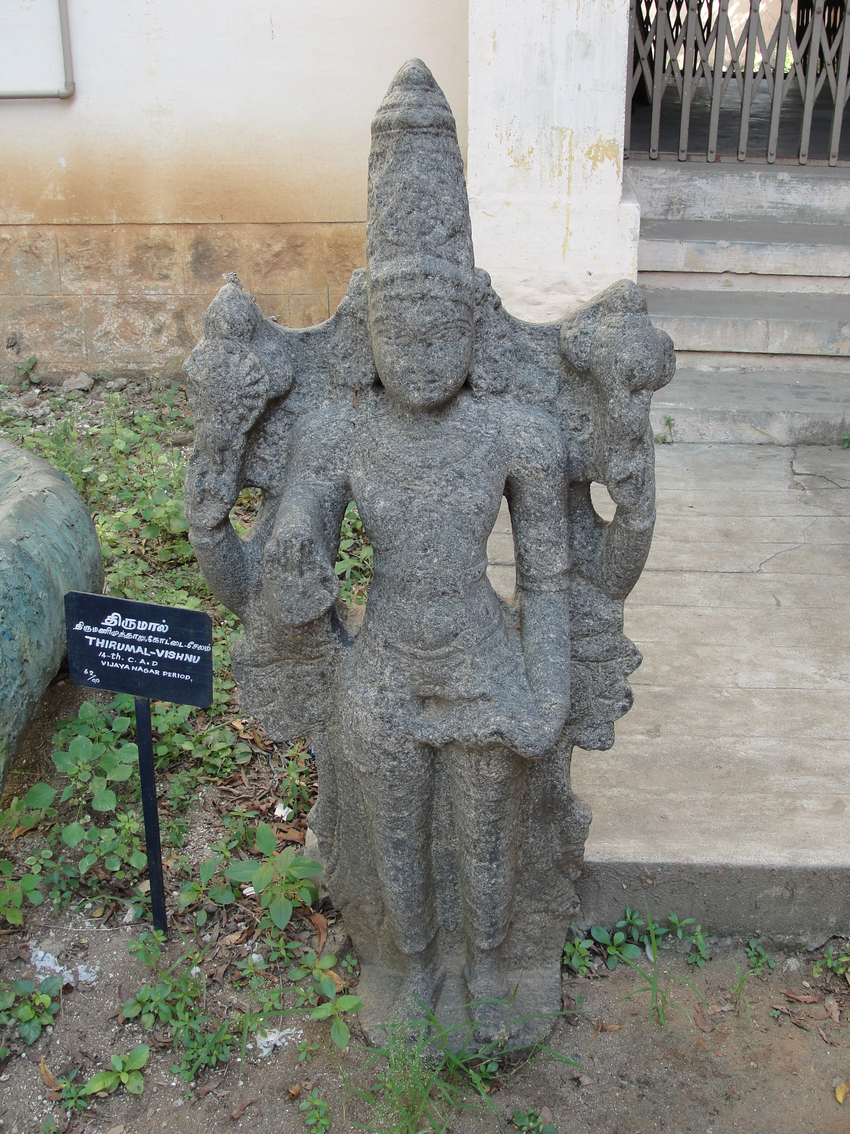 A Thirumal-vishnu, 14th century, A.D., Vijaya Nagar Period. An exhibit in Salem district exhibition, Tamil Nadu, India.